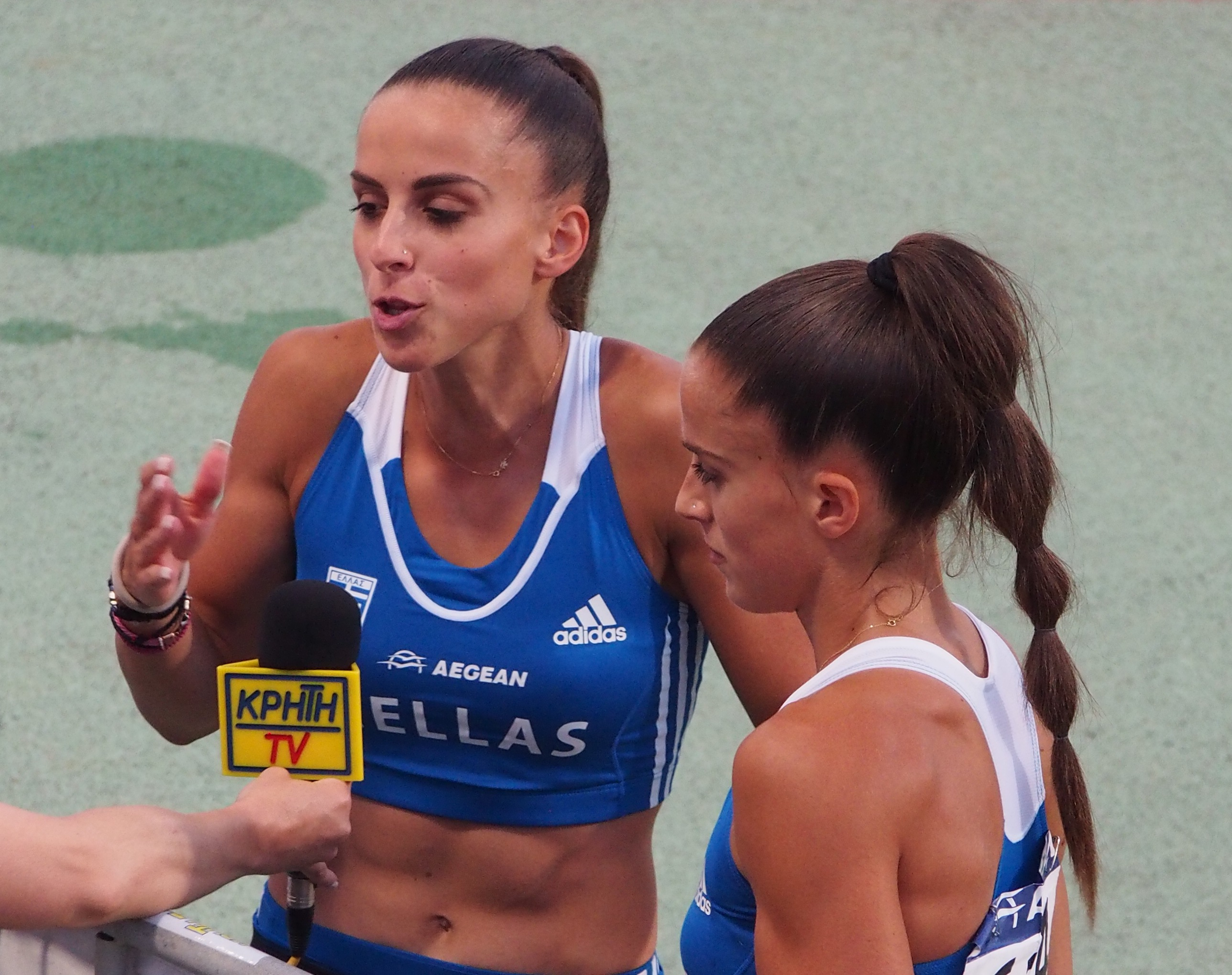 Irini and Anna Vasileiou after the end of 4x400 relay, giving an interview, at the 2015 European Team Championships First League.